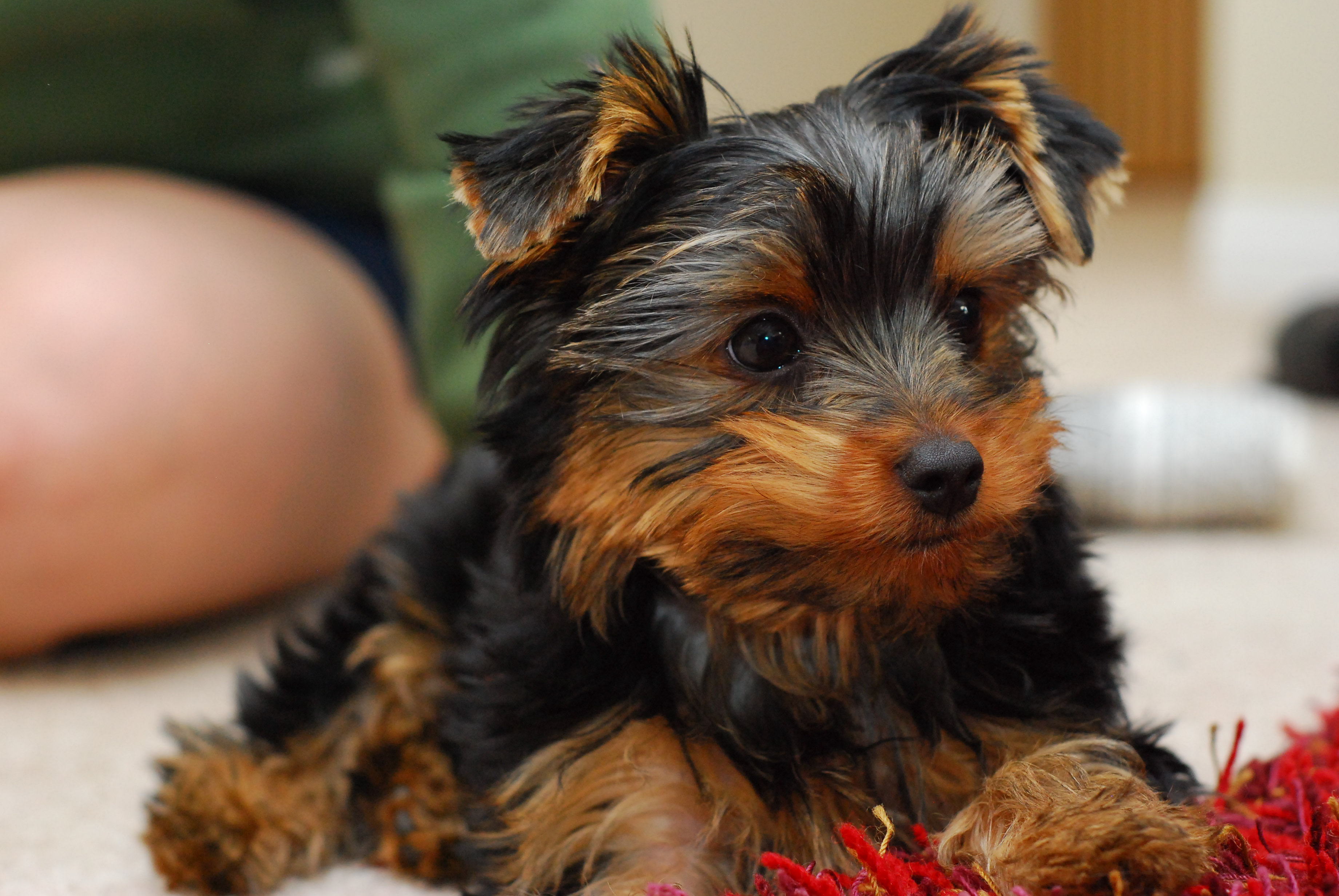 Yorkshire Terrier puppy